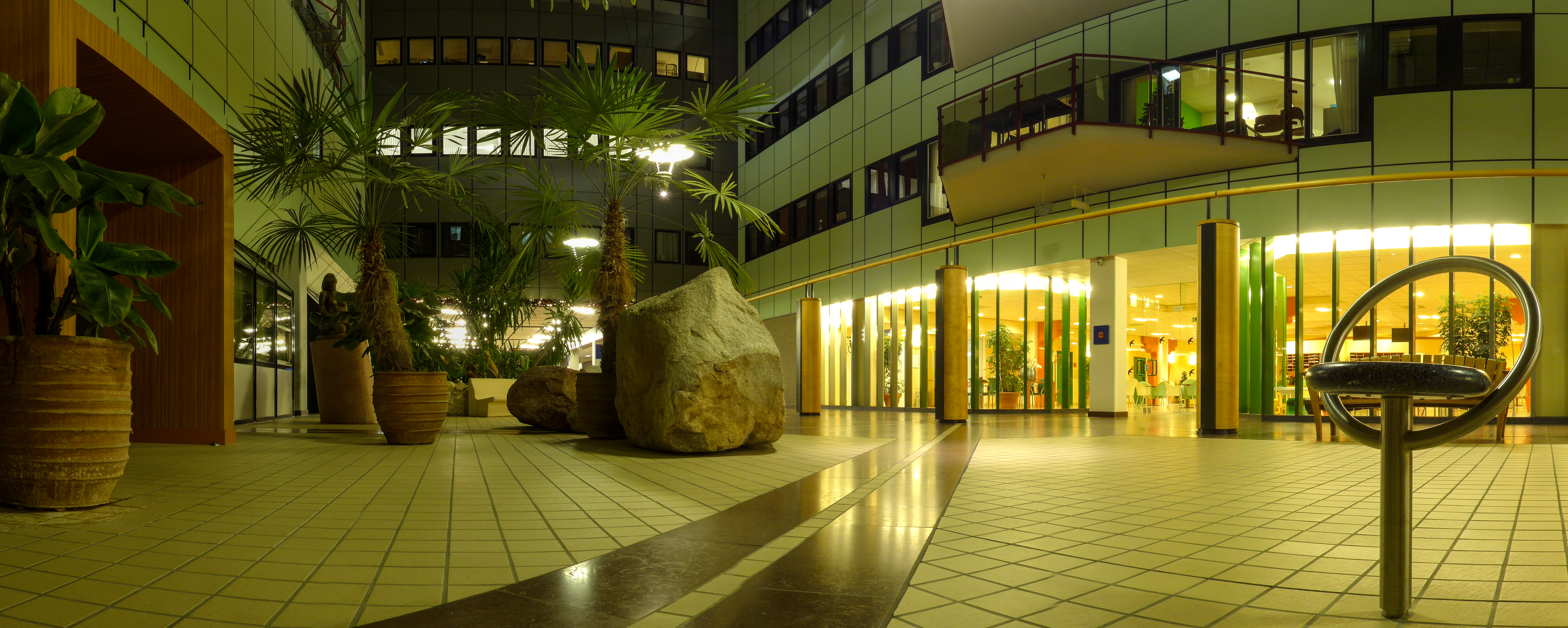 Part of the UMCG in the Dutch city of Groningen.